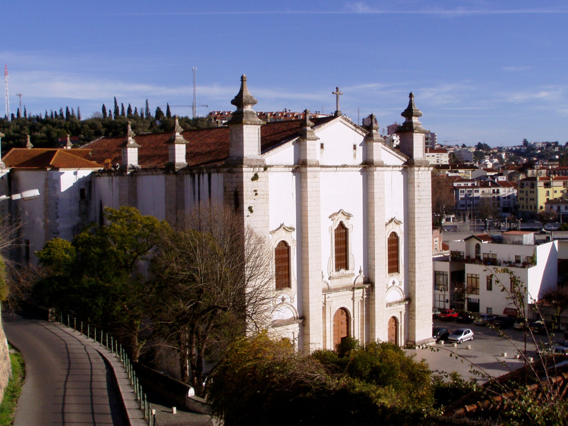 Leiria Cathedral.